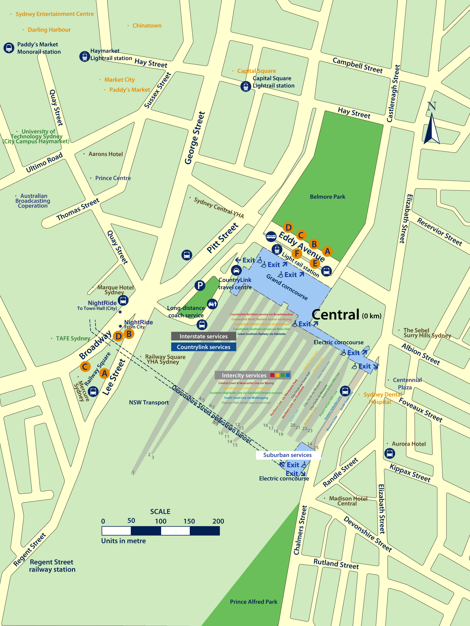 Sydney Central station map